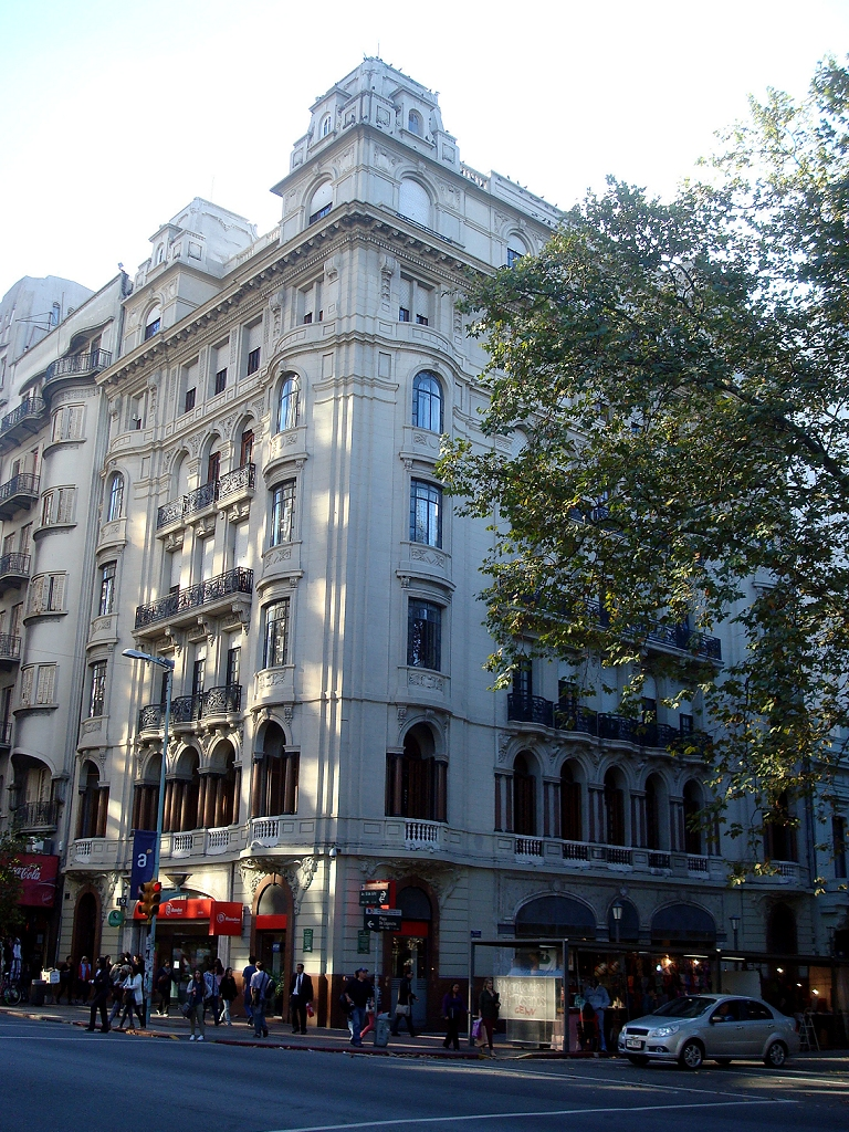 Palacio Chiarino, Plaza Cagancha, Centro, Montevideo, Uruguay.